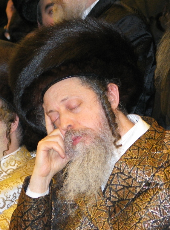 Rabbi Shlomo Goldman Zviller rebbe, photo by Y.M. (myself)